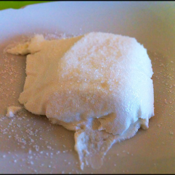 Piràmide d'aliments de l'Empordà